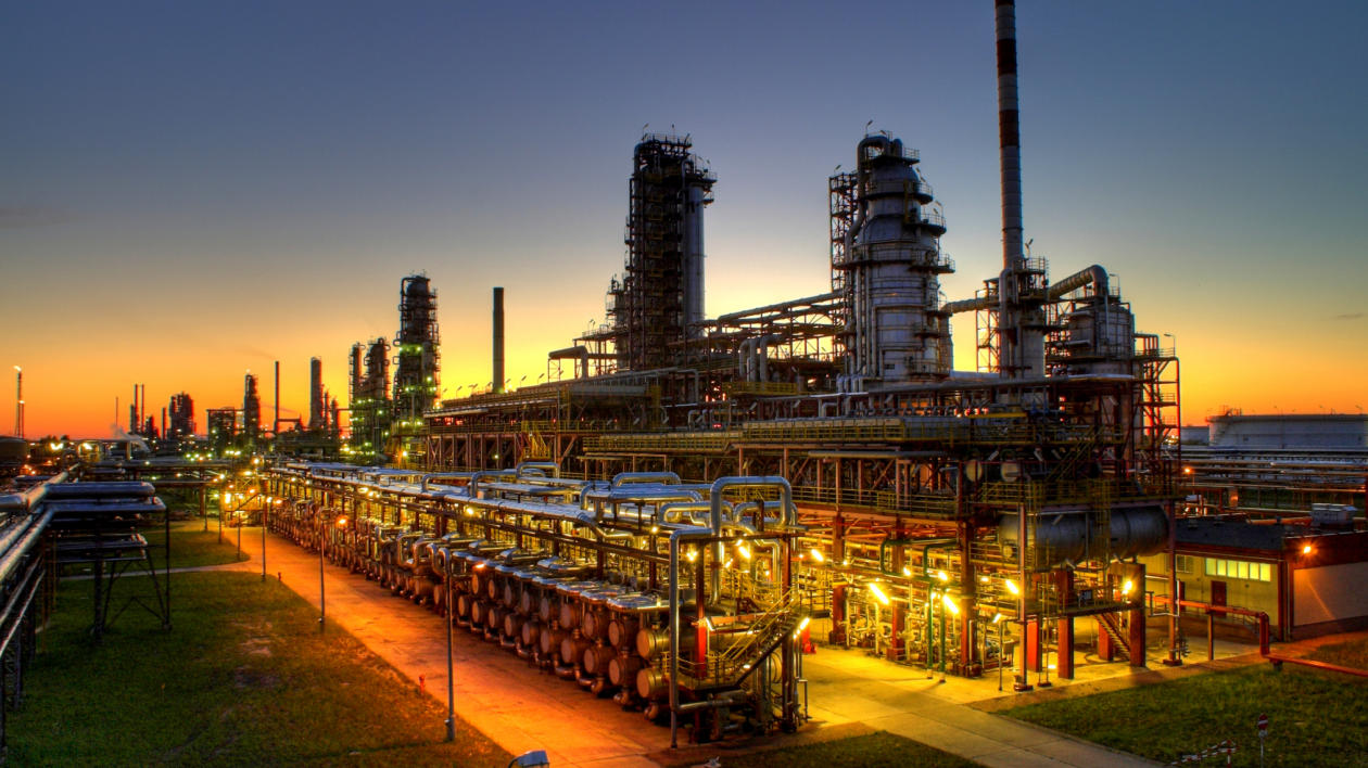 AB „ORLEN Lietuva“ plant